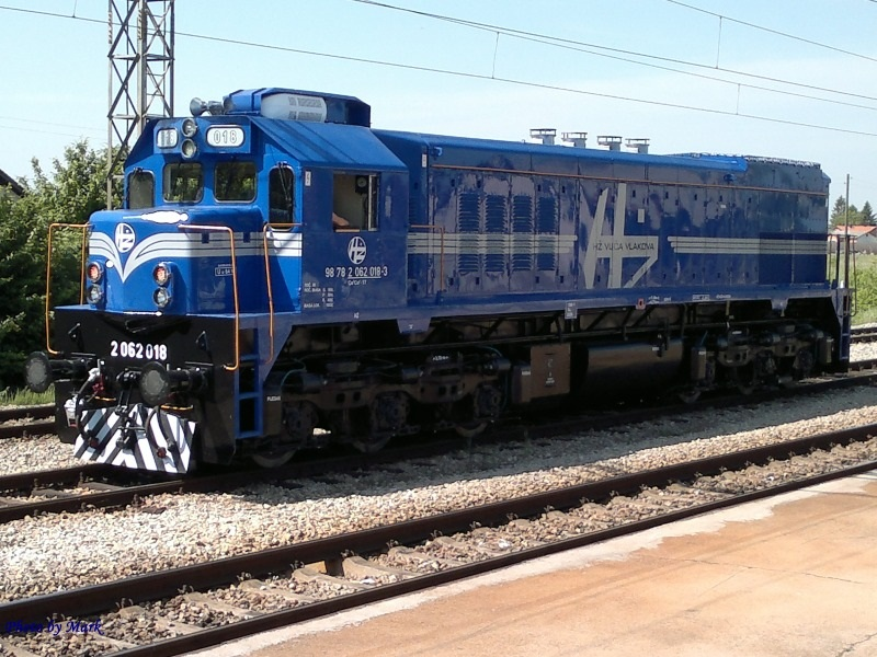 A diesel unit of the Croatian railways